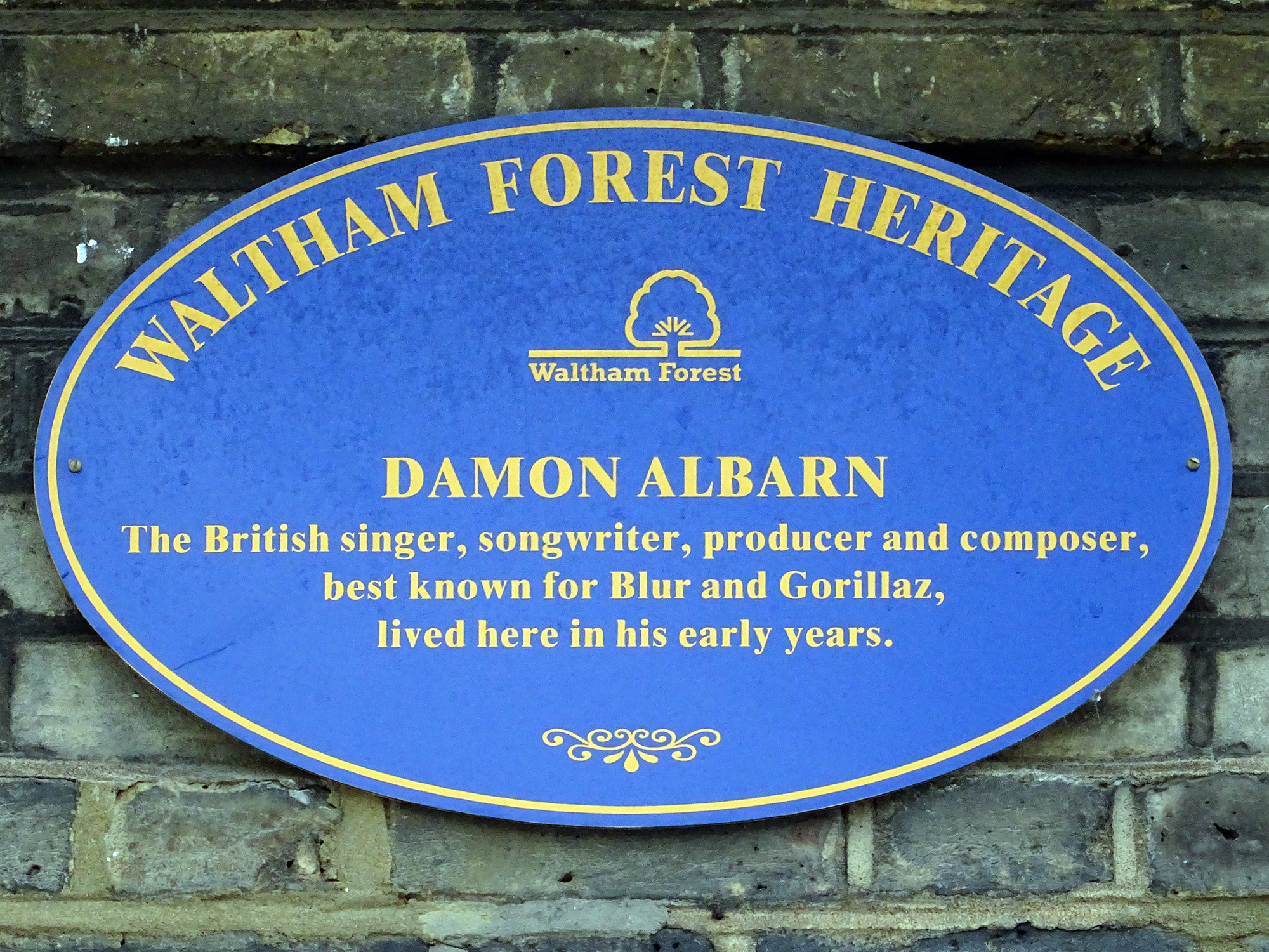 Blue plaque erected in October 2014 at 21 Fillebrook Road Leytonstone London E11 4AU